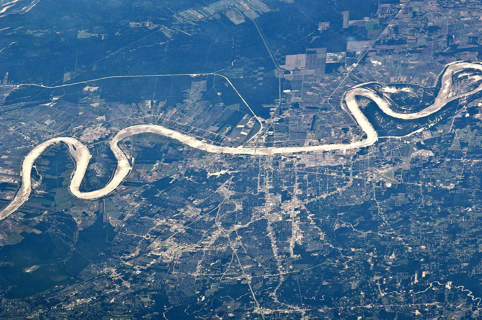 Aerial image of Baton Rouge, LA along the Mississippi River from the International Space Station. Downtown Baton Rouge is along the straight segment of the river in the center of the photograph; if you look closely, you can see where Interstate 10 crosses the river at the Horace Wilkinson Bridge. Note that the image is looking to the west, with the right side being north.